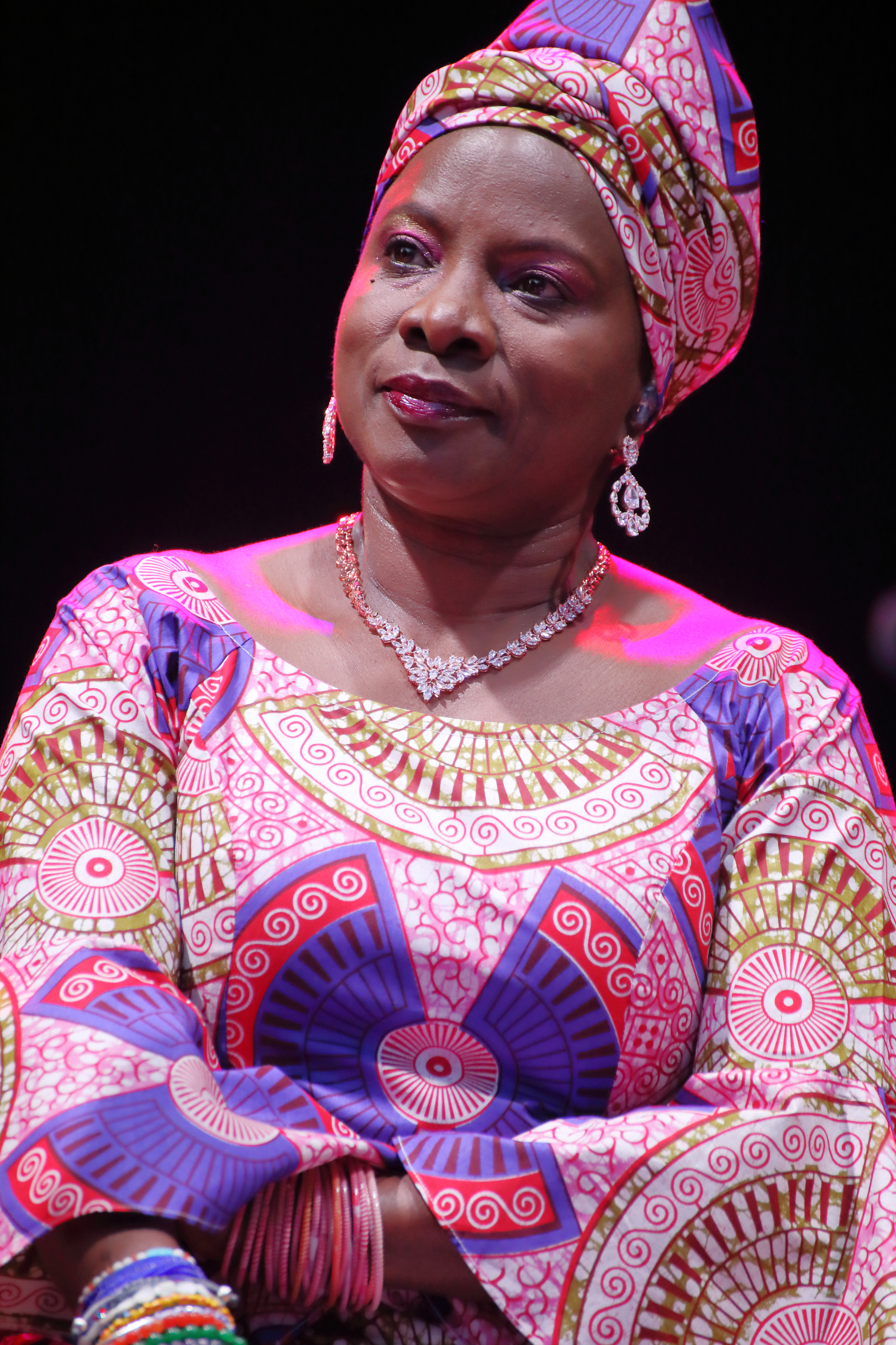 Angelique Kidjo with Cécile McLorin Salvant and Lizz Wright in the collective women´s project Sing The Truth at Rudolstadt-Festival 2019.